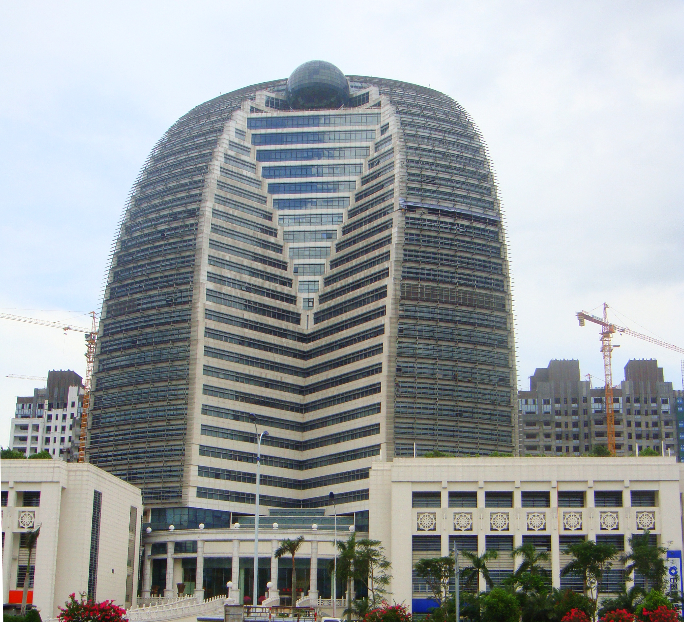 New Haihang Building in 2017, Haikou, Hainan, China